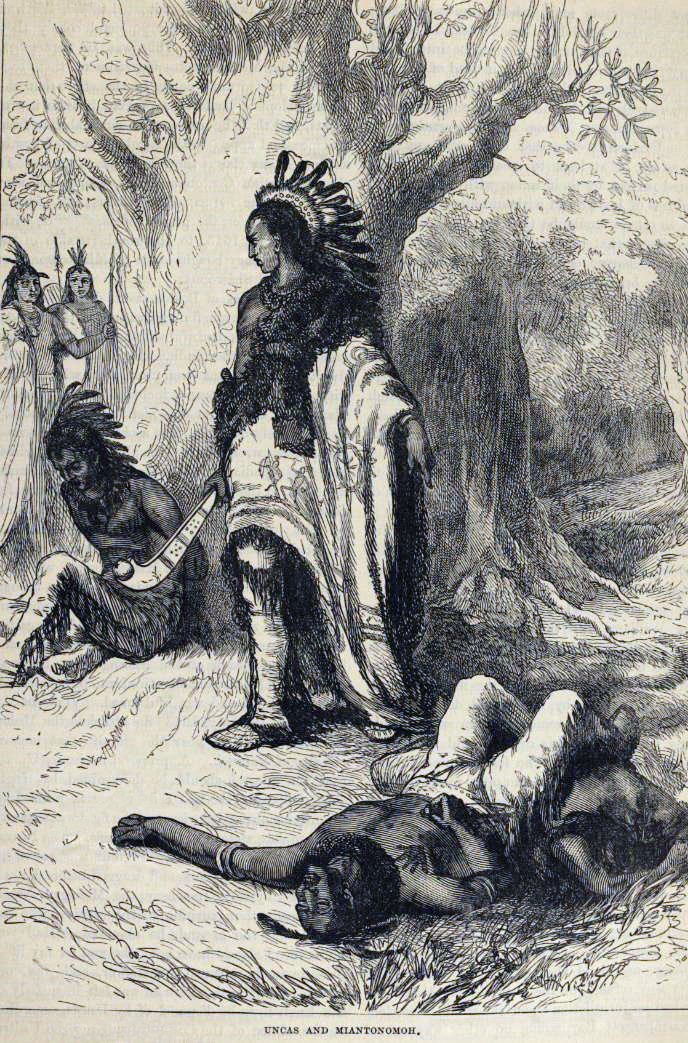 Uncas, chief of the Mohegan tribe, executes Miantonomoh of the Narragansett tribe after a battle in (what is now) Norwich, Connecticut, United States in 1643